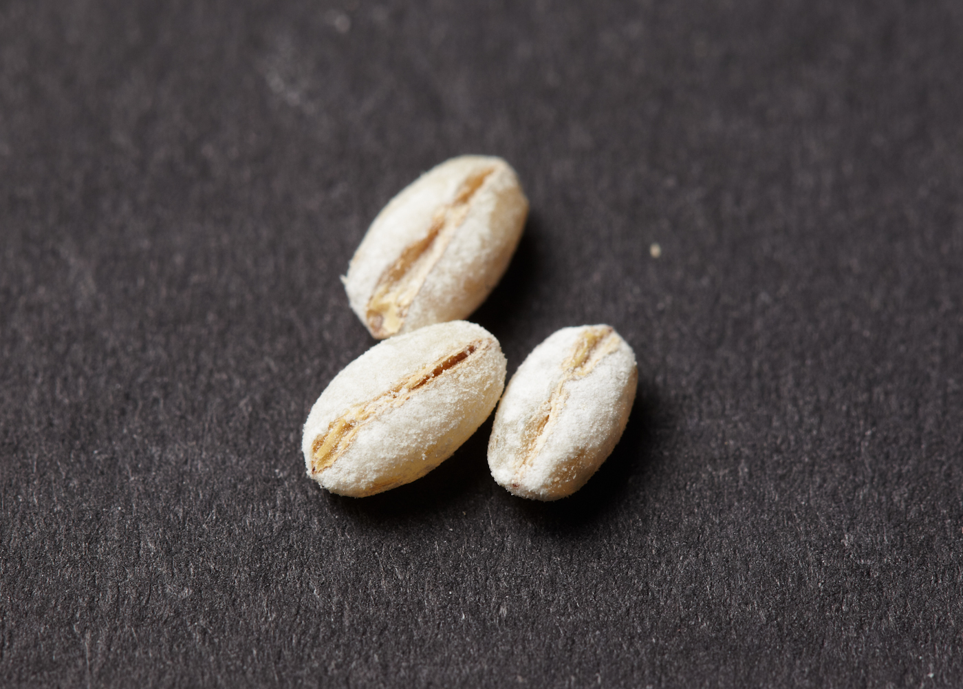 barley grains